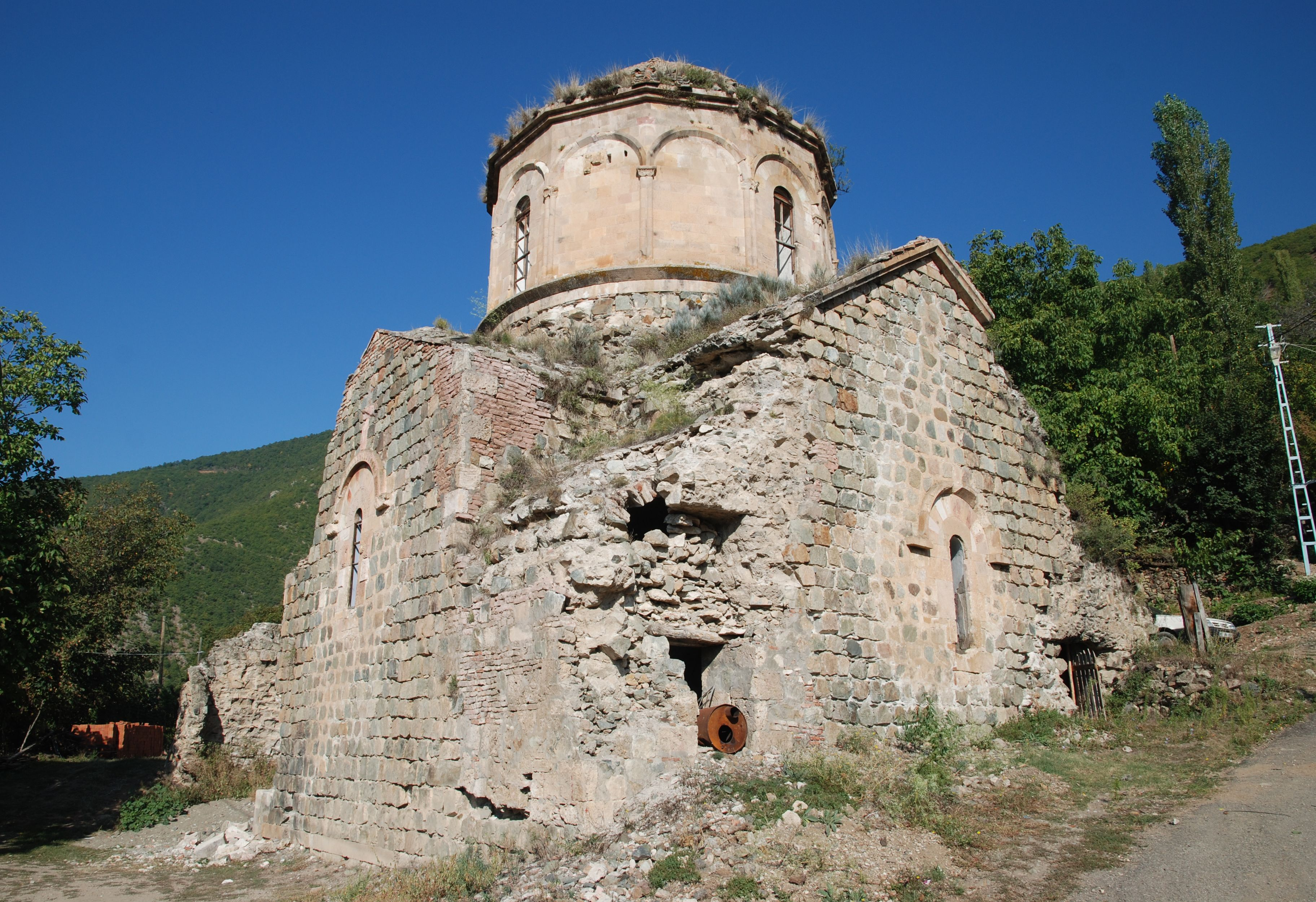 Doliskana church in Hamamlıköy village, from southeast